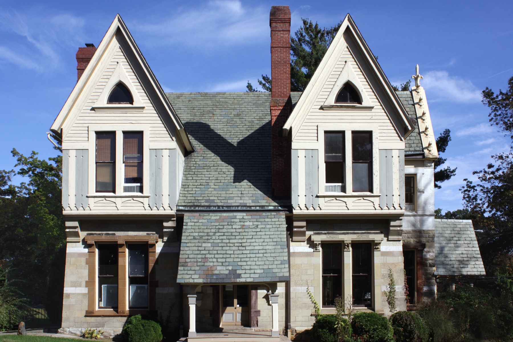 Ohio House, Fairmount Park, Philadelphia, Pennsylvania